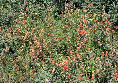 Paintbrush color range